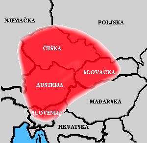 Samo's Empire 631-658